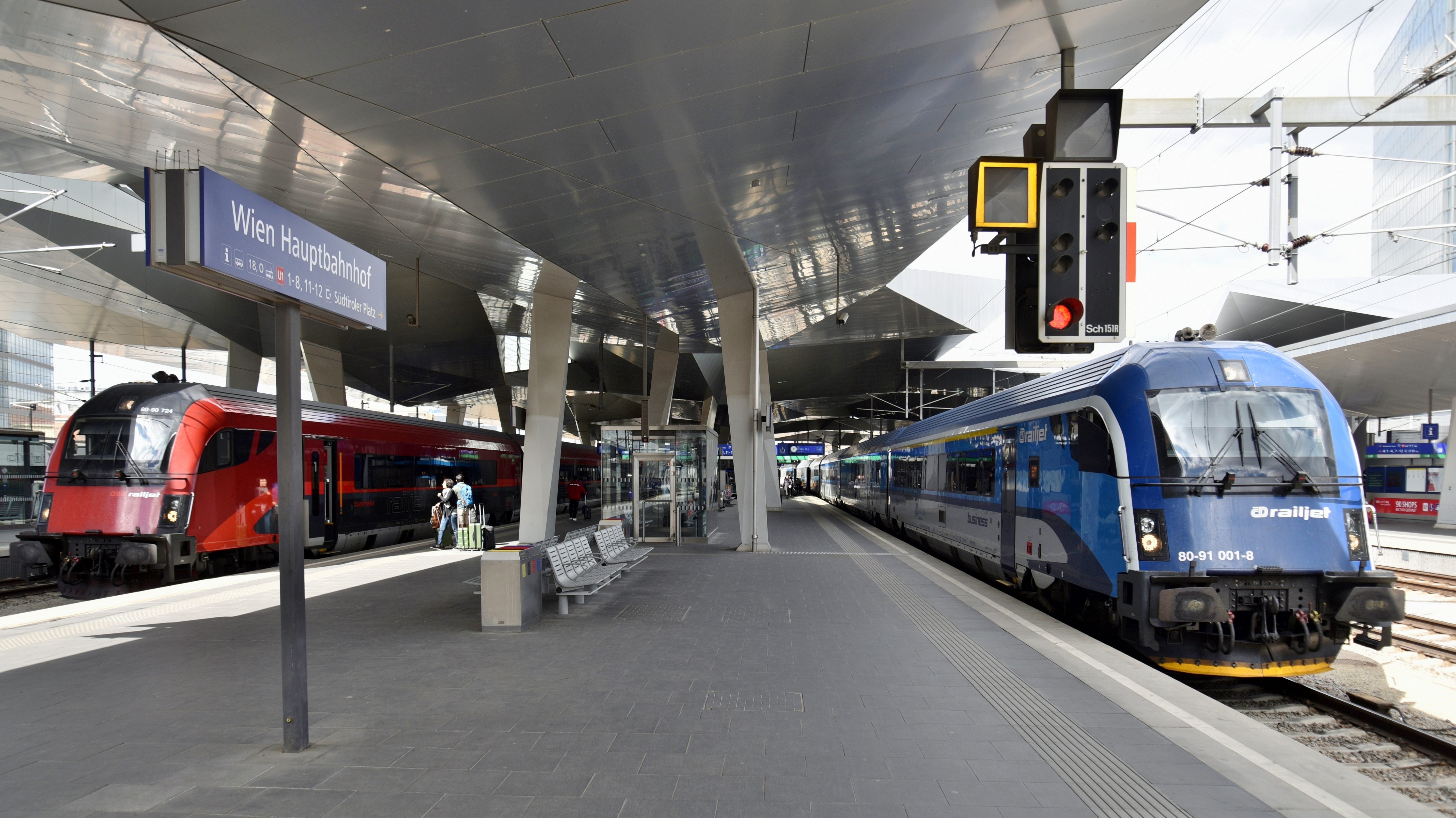 An assortment of trains at Wien Hauptbahnhof (L–R): ÖBB Railjet unit no. 24, and ČD Railjet unit no. 1.